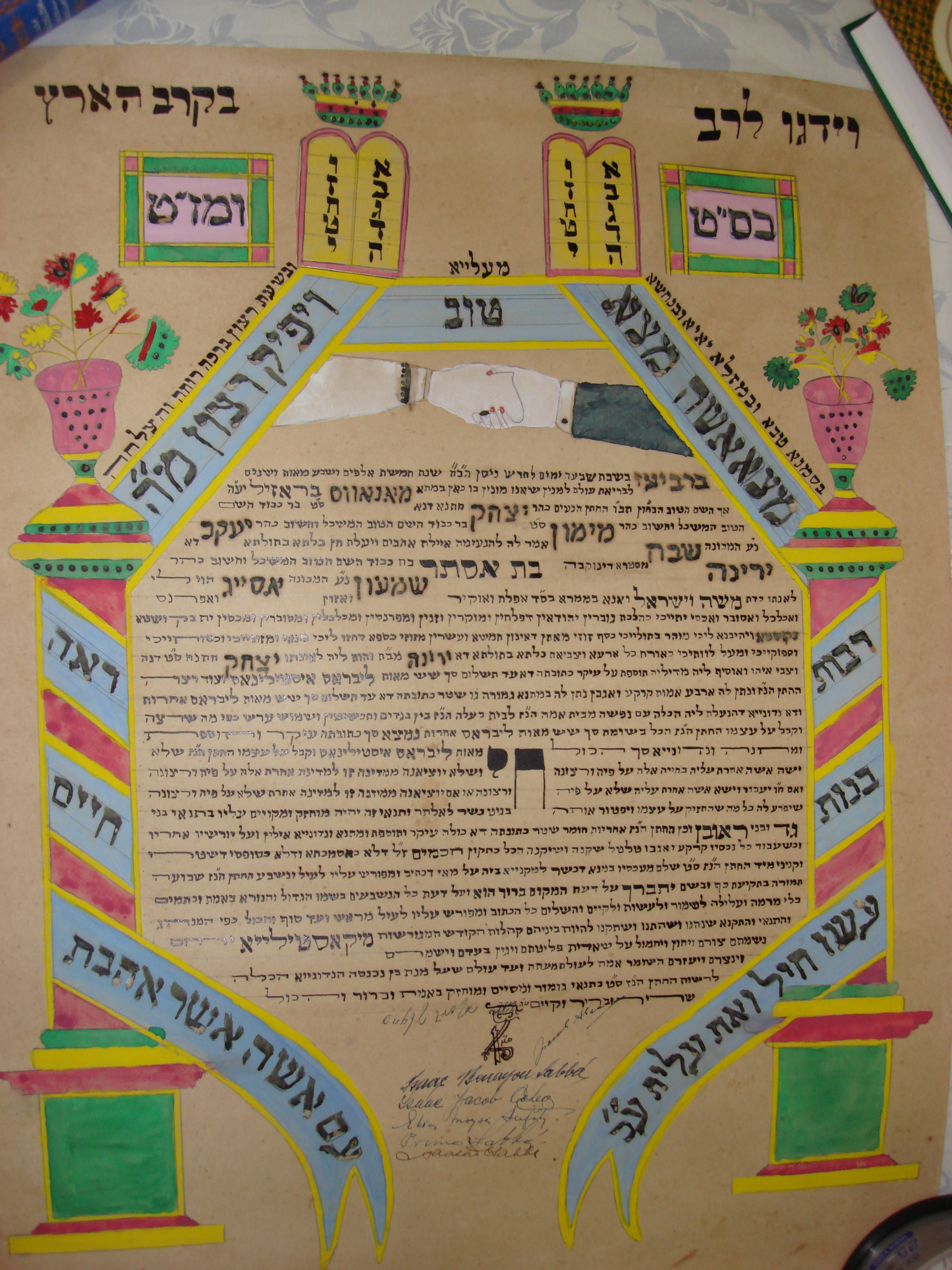 Ketubah- Isaac Benayon Sabba & Irene Assayag Gonçalves - Marrige in Manaus, Brazil